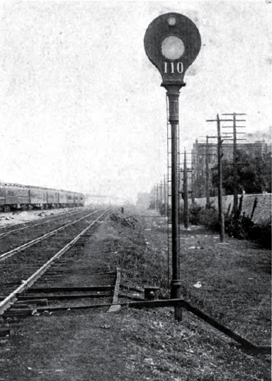 View of disc-style railroad signal manufactured by Hall Signal Company. The signal is displaying the "Clear" indication.